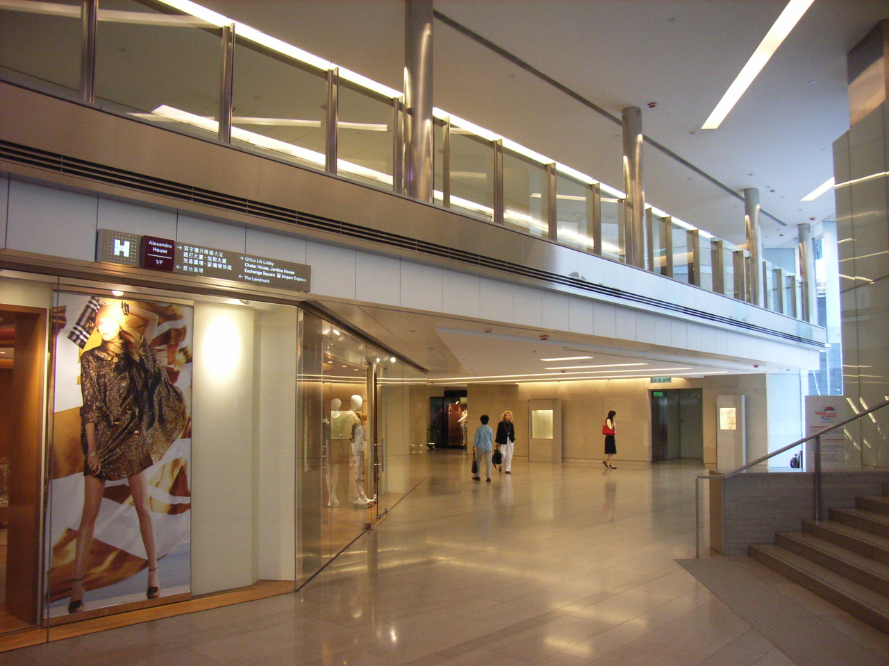 歷山大廈, Alexandra House, Central, Hong Kong By KennethTom